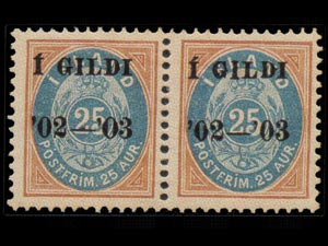 Forged stamp of Iceland 25 Aur with black I GILDI overprint. Suspected "Ferrarity". See: Carl Aage Møller. "Sunday-print", "Ferrarity" og reprint. // FFE #7.